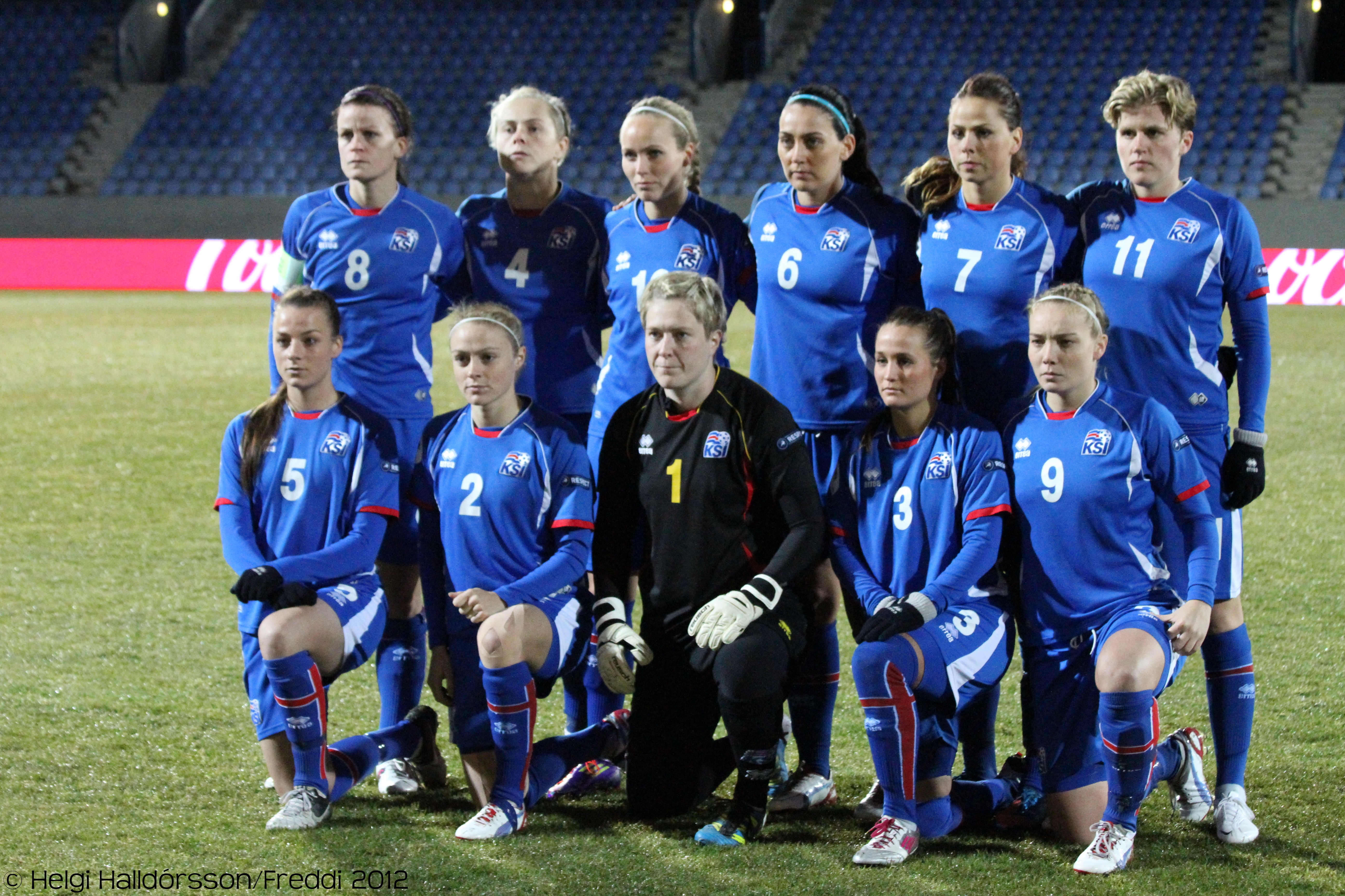 Iceland-Ukraine 25/10/2012